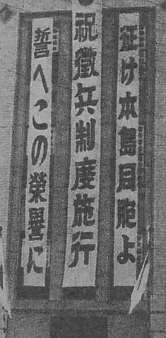 IJA(Imperial Japanese Army) draft slogans in Taiwan